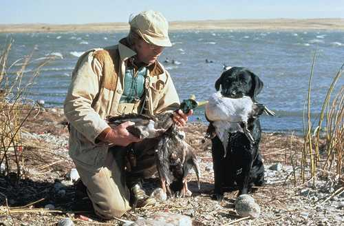 Duck hunter with lab & 3 mallards.